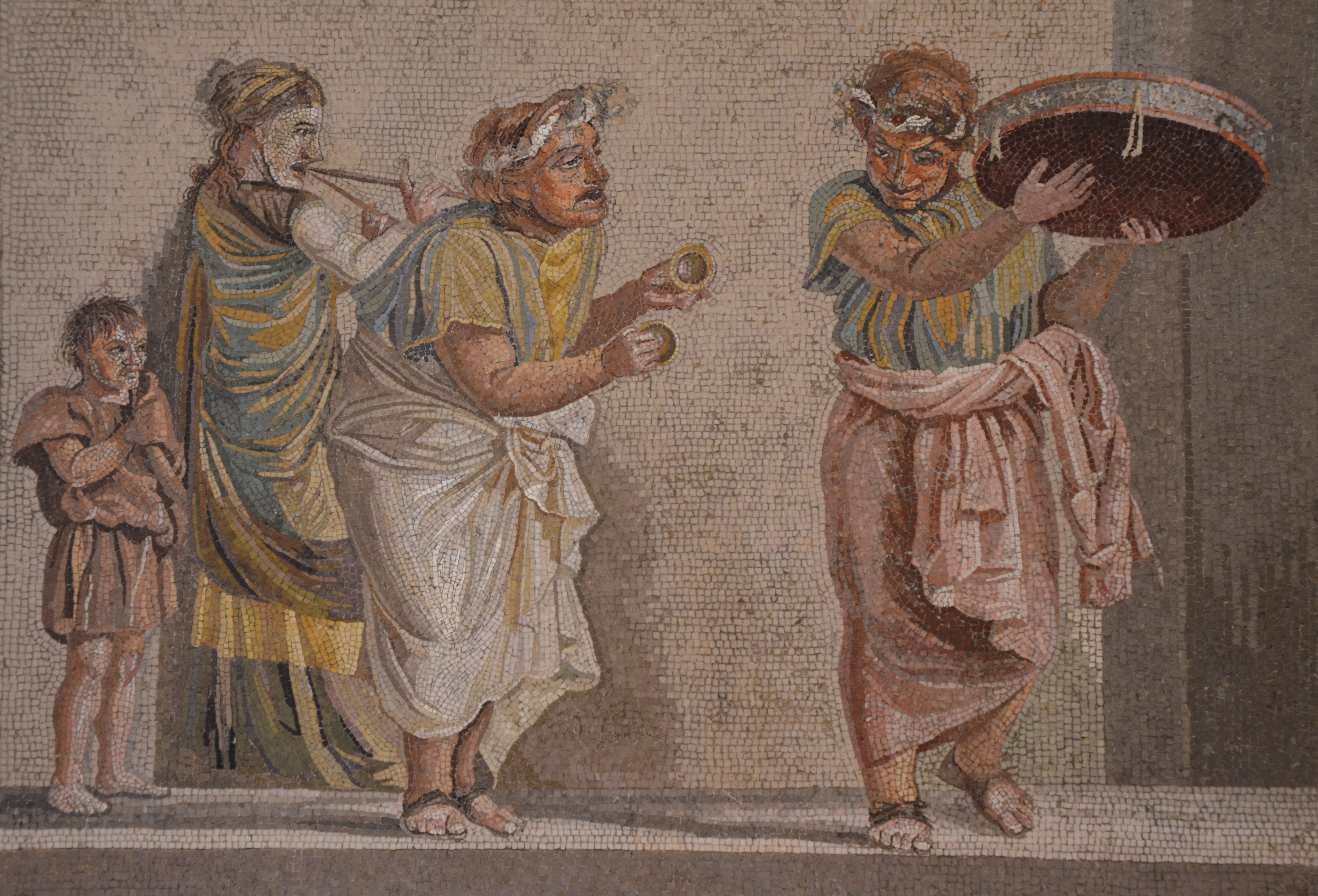 The mosaic depicts an episode from a comedy, since the figures are wearing theatrical masks. The figures are playing musical instruments often connected with the cult of Cybele: the tambourine, small cymbals and the double flute. This particular mosaic dates from the first century BCE, but the scene is known from the 3rd century BCE onward. It is found in paintings and mosaics until the 3rd century CE. The play is not immediately identifiable from this mosaic. The mosaic is one of the finest surviving works from the ancient Roman world. It measures c. 41×43 cm and is made with minute tesserae, in a technique called opus vermiculatum. None of the stones are larger than 2.5mm and many of the finer details are made with tesserae smaller than 1 mm2. The mortar between the stones are painted to give better detail to the image. Source